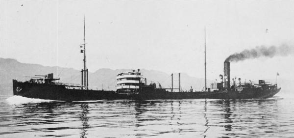 Japanese Oiler "Tsutrumi"(Shiretoko-class) in trial run.